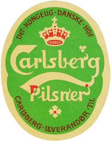 1904 Carlsberg Pilsner label designed by Thorvald Bindesbøll. Label top: DET•KONGELIG•DANSKE•HOF [The Royal Danish Court] Label center: Carlsberg Pilsner [Carlsberg Lager] Label bottom: CARLSBERG•LEVERANDØR•TIL [Carlsberg Supplier to]